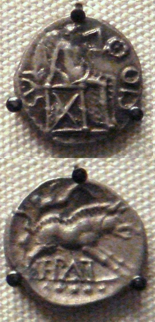 Epaticcus